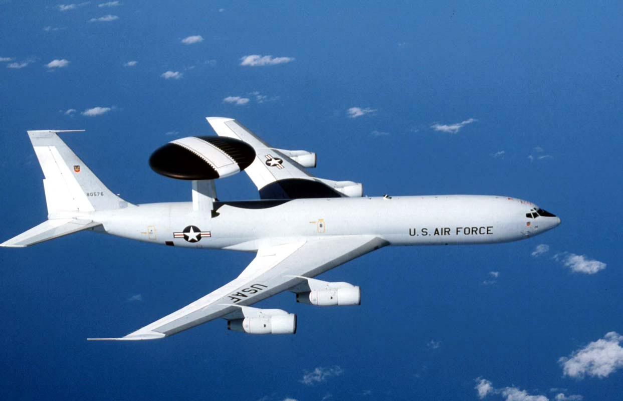 The E-3 Sentry is an airborne warning and control system aircraft that provides all-weather surveillance, command, control and communications needed by commanders of U.S. and NATO air defense forces. As proven in Desert Storm, it is the premier air battle command and control aircraft in the world today. The E-3 Sentry is a modified Boeing 707/320 commercial airframe with a rotating radar dome. The dome is 30 feet in diameter, six feet thick, and is held 11 feet above the fuselage by two struts. It contains a radar subsystem that permits surveillance fromthe Earth's surface up into the stratosphere, over land or water. The radar has a range of more than 200 miles for low-flying targets and farther for aerospace vehicles flying at medium to high altitudes. The radar combined with an identification friend or foe subsystem can look down to detect, identify and track enemy and friendly low-flying aircraft by eliminating ground clutter returns that confuse other radar systems.